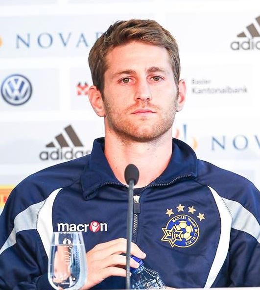 Sheran Yeini in Maccabi Tel Aviv press conference before the UEFA champions league match with F.C. basel, 30 July 2013